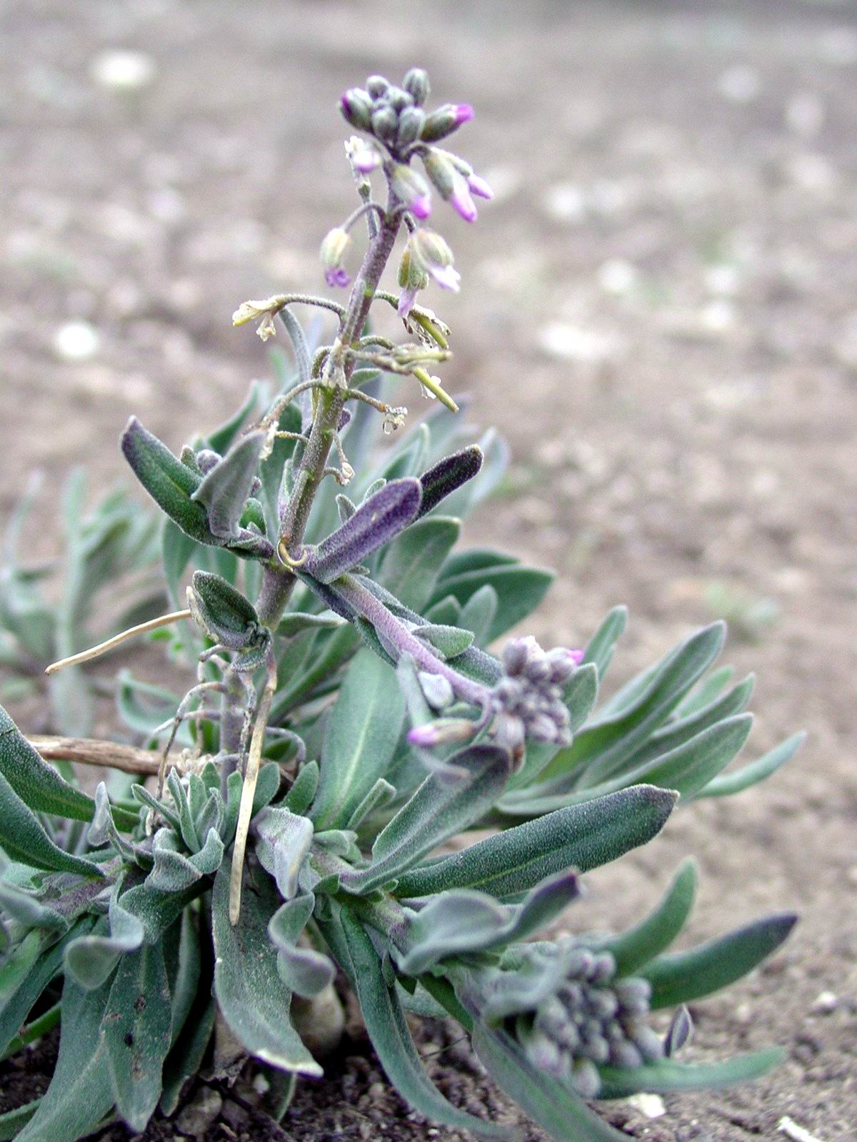 Arabis holboellii syn Boechera holboellii. City of Rocks National Preserve, Idaho, USA.